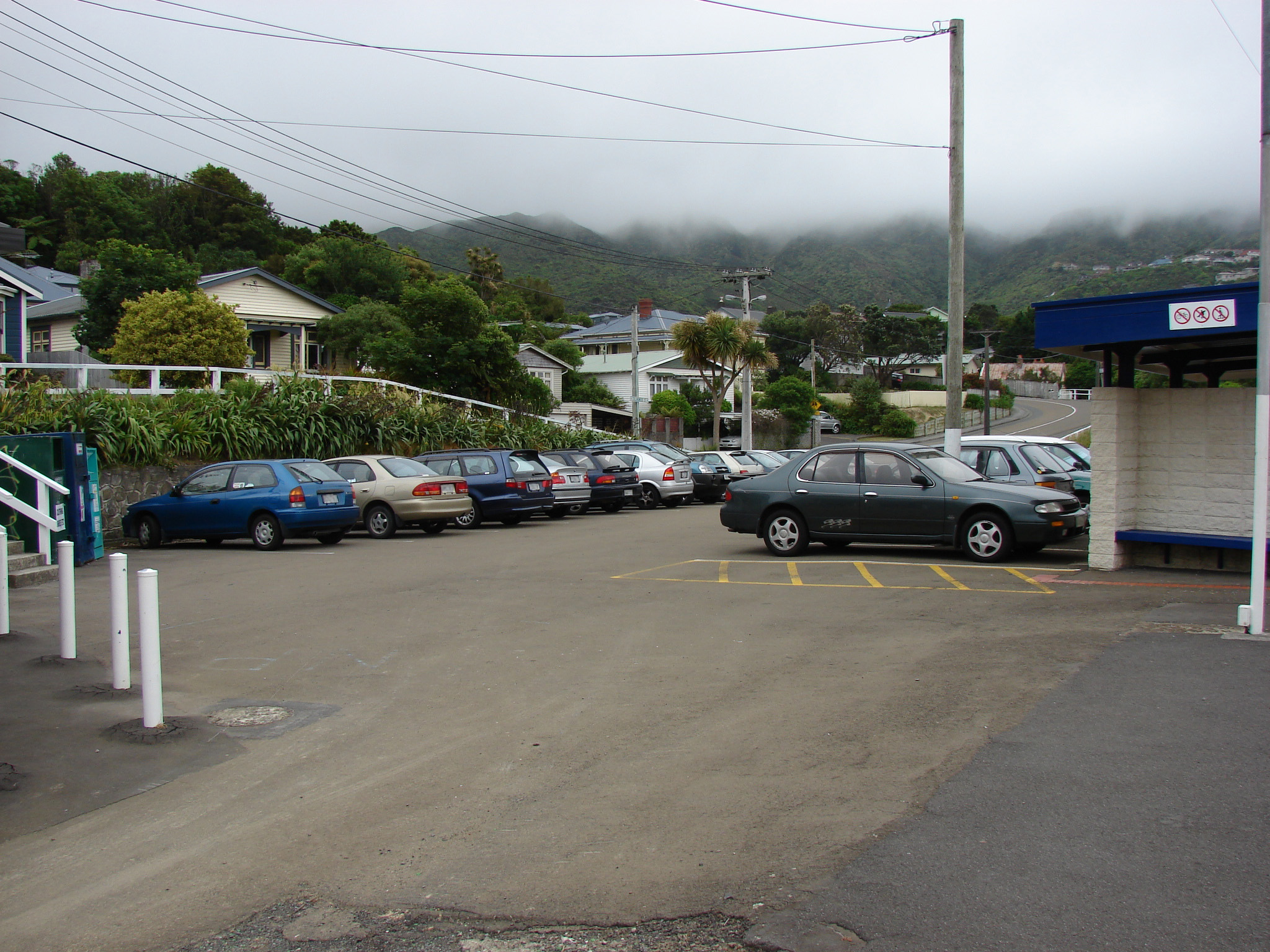 Part of the Ngaio railway station car park. Photographed by Matthew25187 on 2007-12-17.